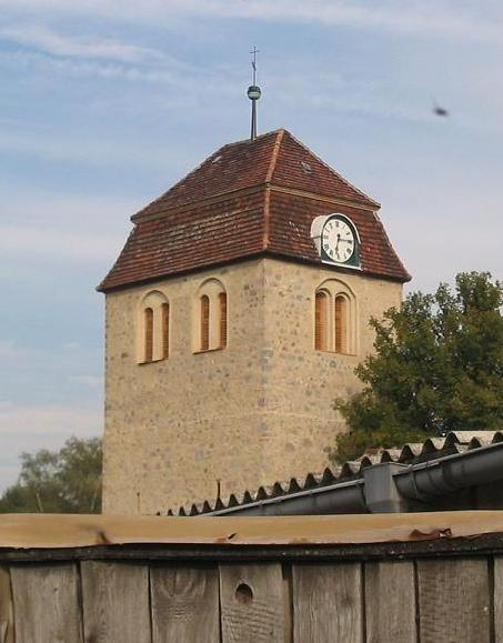 Stonechurch in Görzke, built probably in the second half of the 12th century. Görzke is a municipality in the district Potsdam Mittelmark, state Brandenburg, Germany. The village appertains to the nature park Naturpark Hoher Fläming.